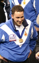 I took this image after the closing ceremonies at the 2006 Men's Curling Championship. File